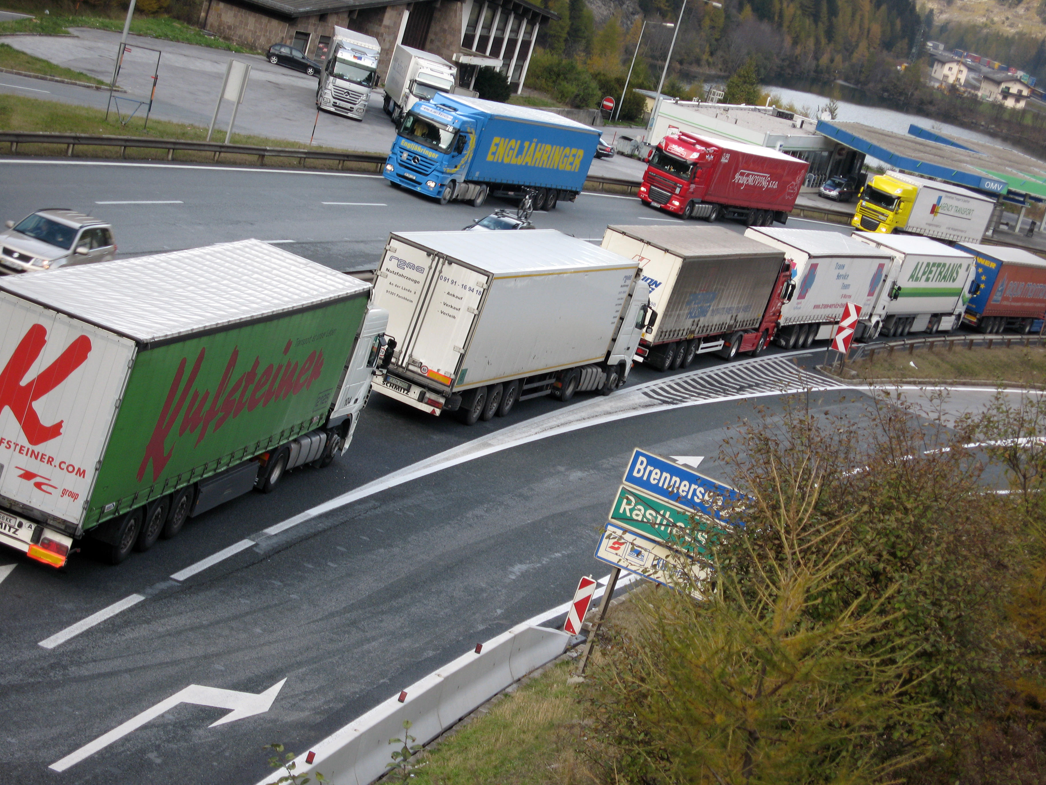 The Brenner Pass on the Italian Austrian border, one of the most important transit routes between Northern and Southern Europe.